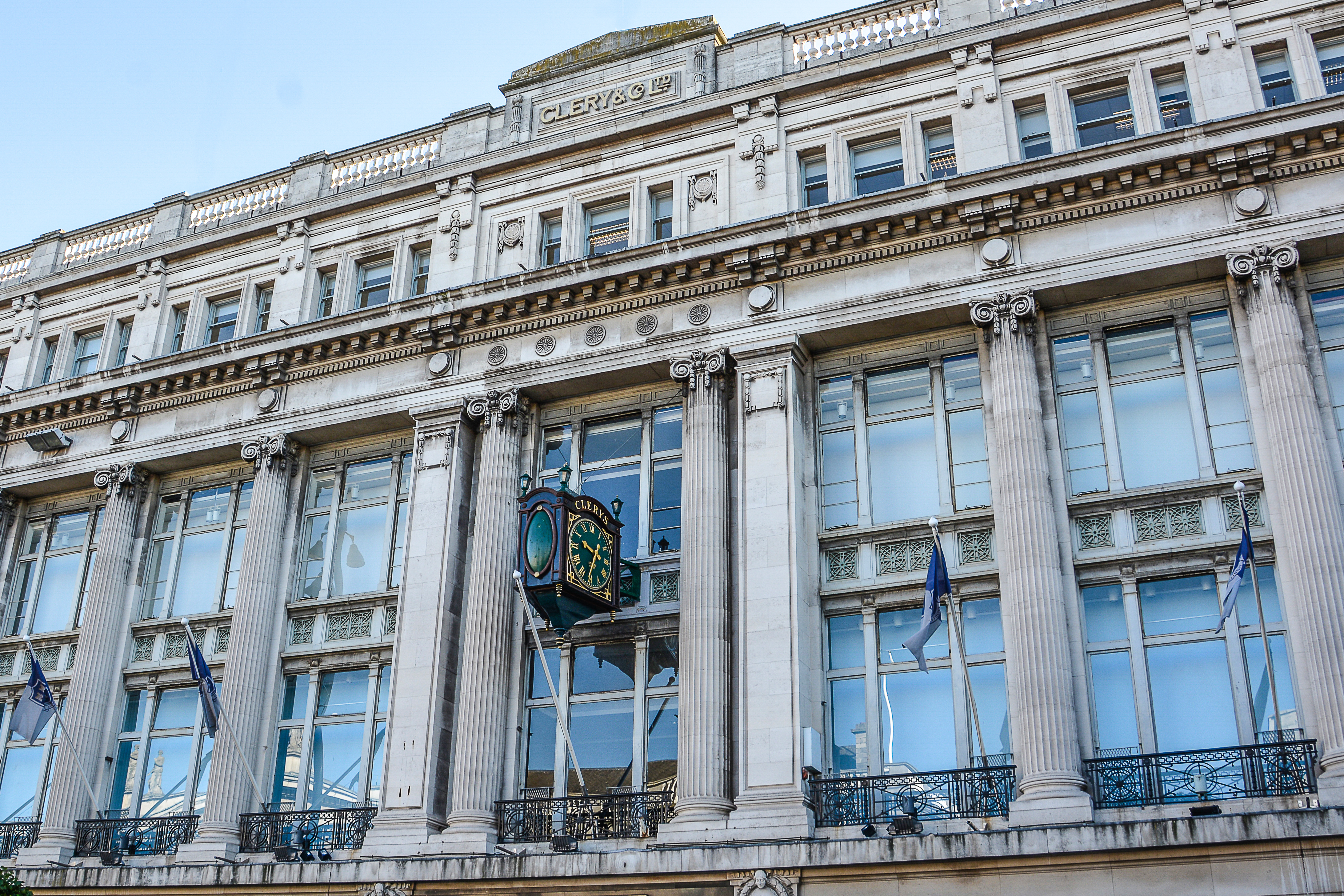 Building on O'Connell Street in Dublin